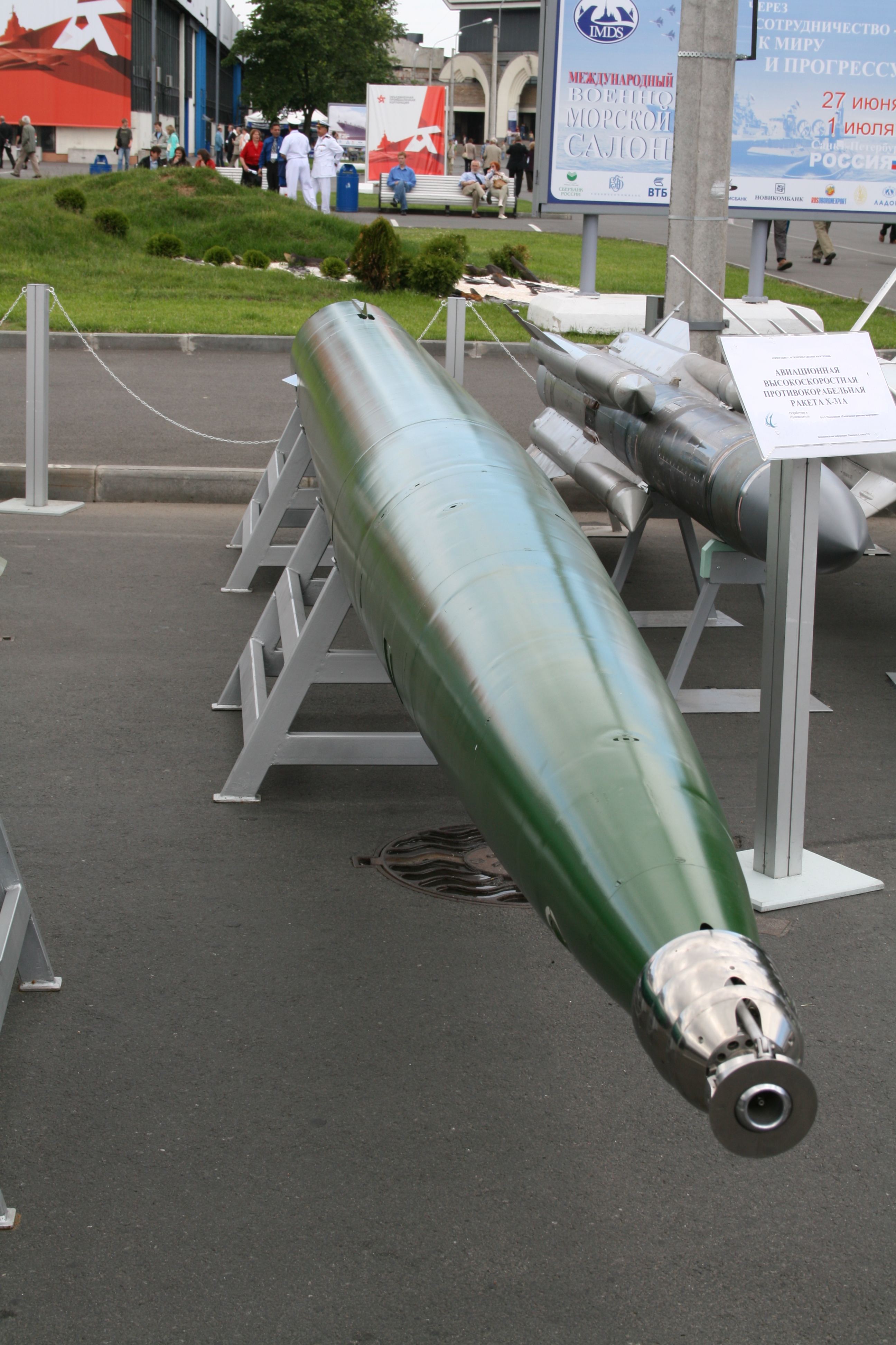 Underwater missile «Shkval» (export variant) shown on IMDS-2007